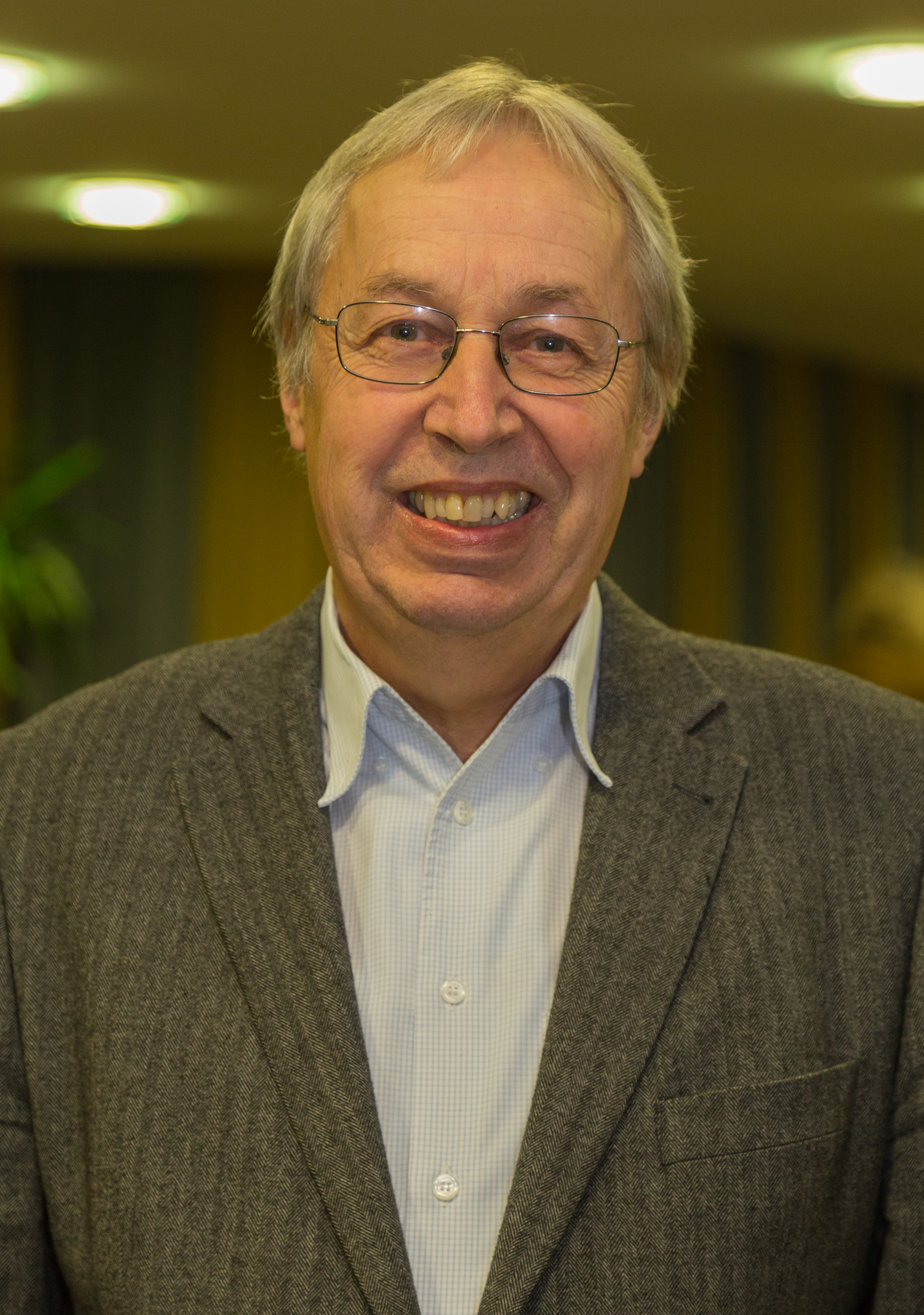 The German teacher, historian and writer Dr. Alfred Wesselmann. This portrait photography was taken at the Kulturhaus in Tecklenburg, Kreis Steinfurt, North Rhine-Westphalia, Germany.